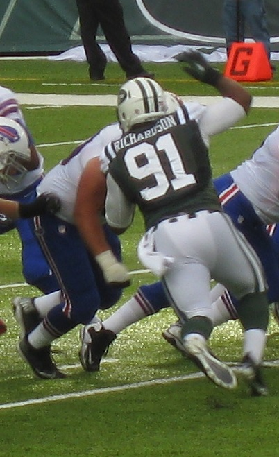 New York Jets Defensive End Sheldon Richardson in action against the Buffalo Bills, September 22, 2013